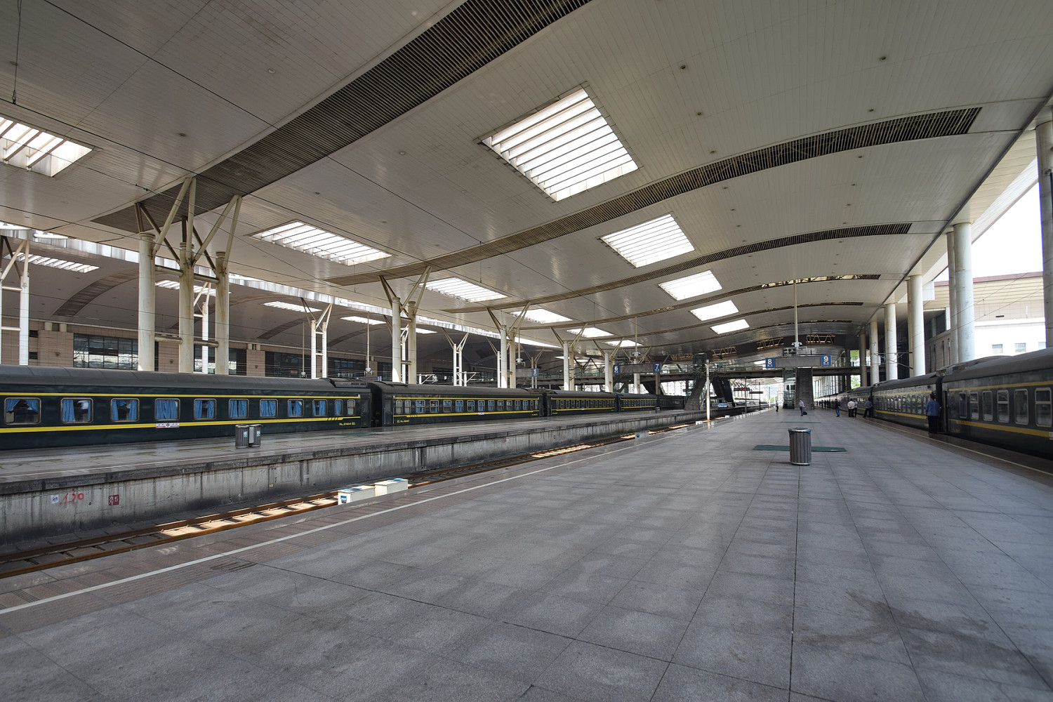 Platforms of Wuchang Railway Station, view towards Hanyang Railway Station.